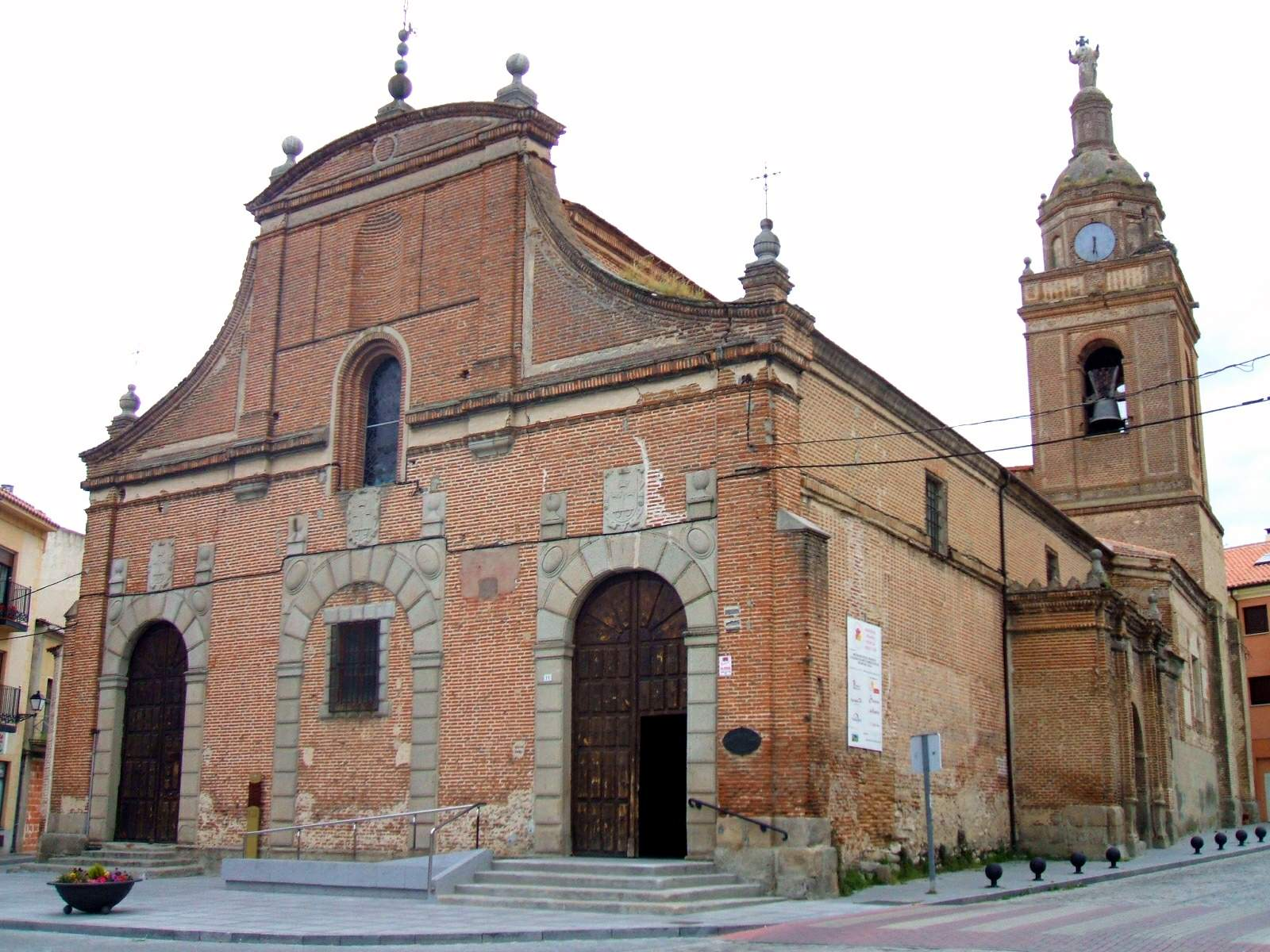 Iglesia de Santo Domingo de Silos (Arévalo).